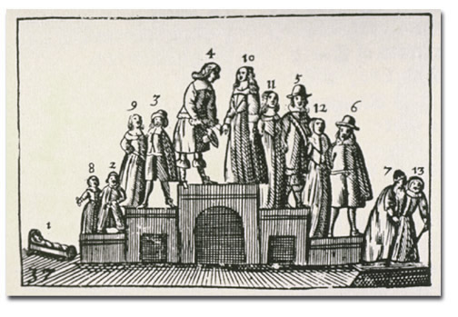 The Seven Ages of Man, from: Orbis Sensualium Pictus, 1672 English edition, p. 76